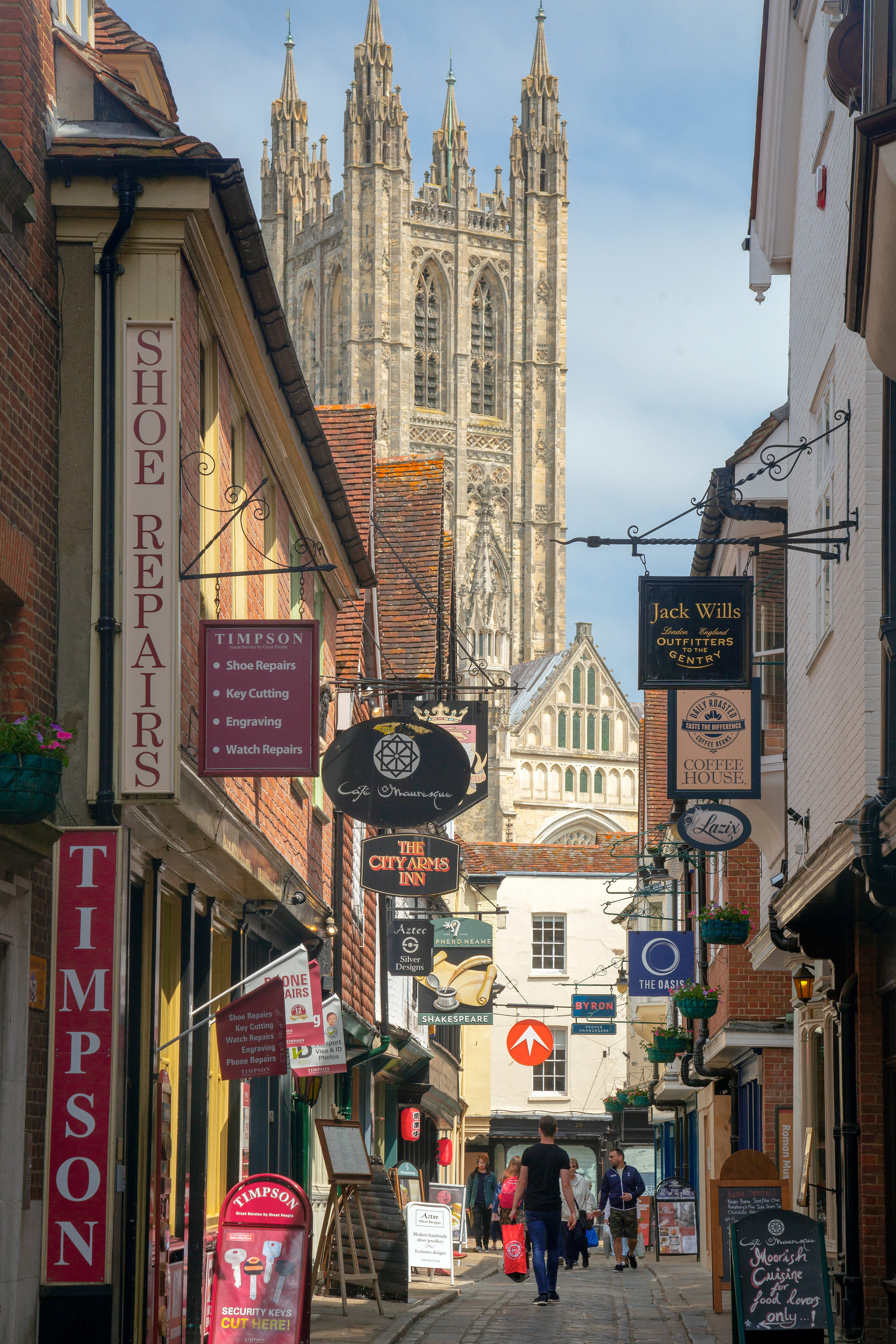 Butchery Lane with Canterbury Cathedral in the background